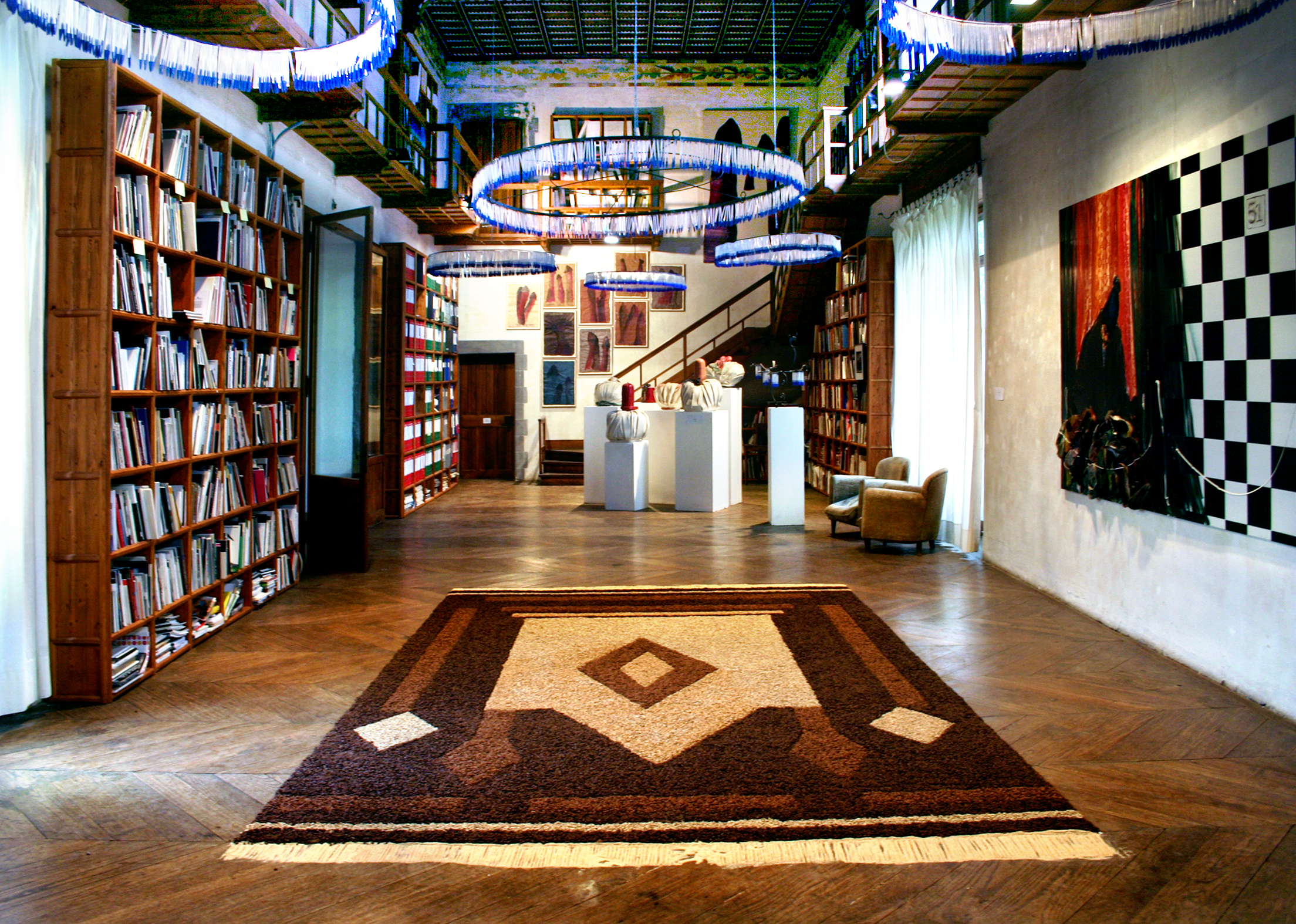 Library, New Castle, Rivara, Italy